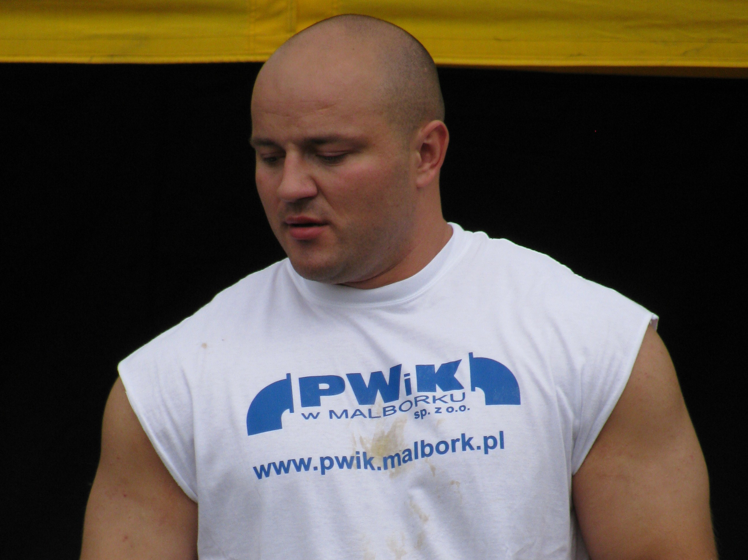 Bartlomiej Bak - a strength athlete from Poland